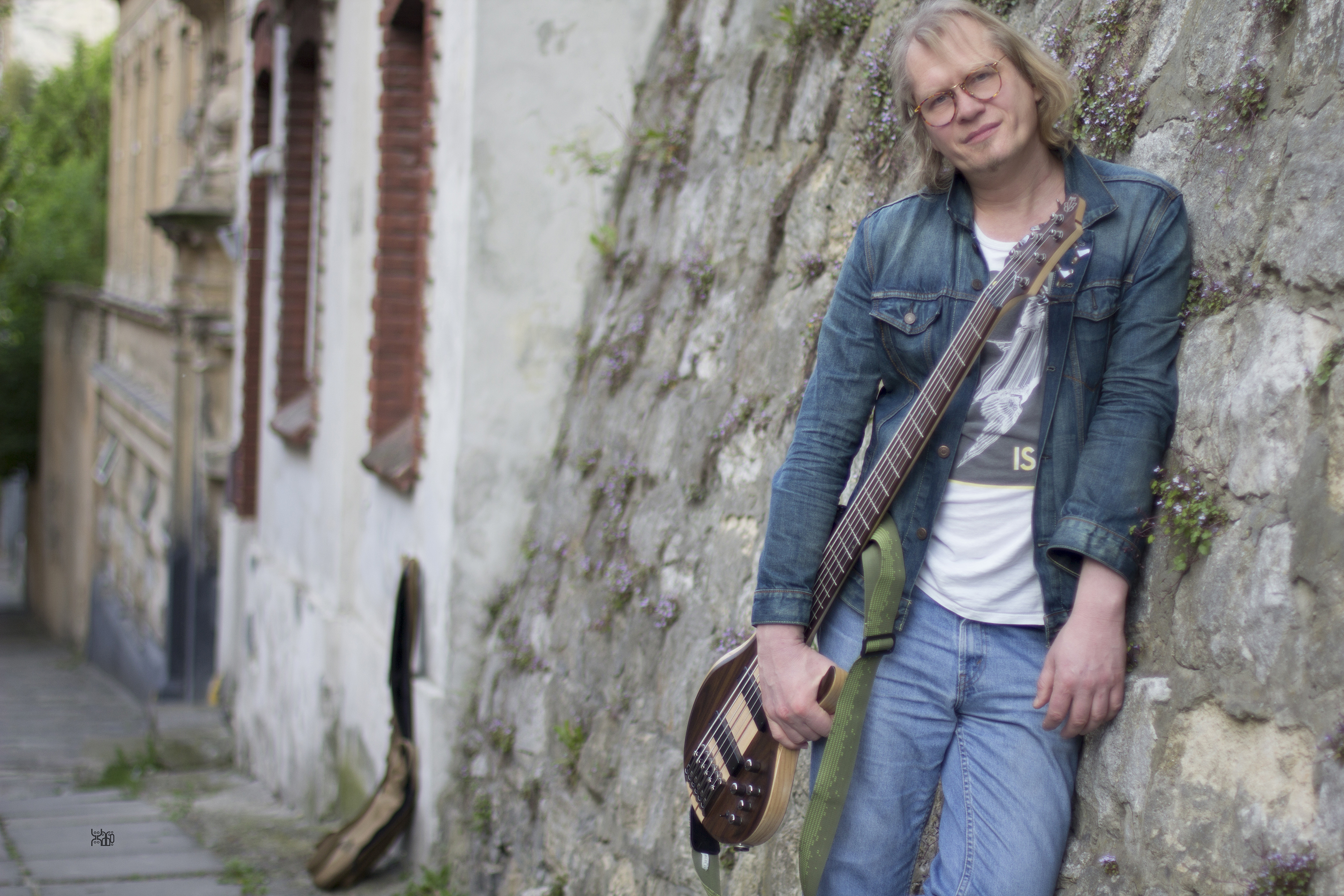 Andrew Arnautov with his 6 string "Ibanez Terra Firma" bass